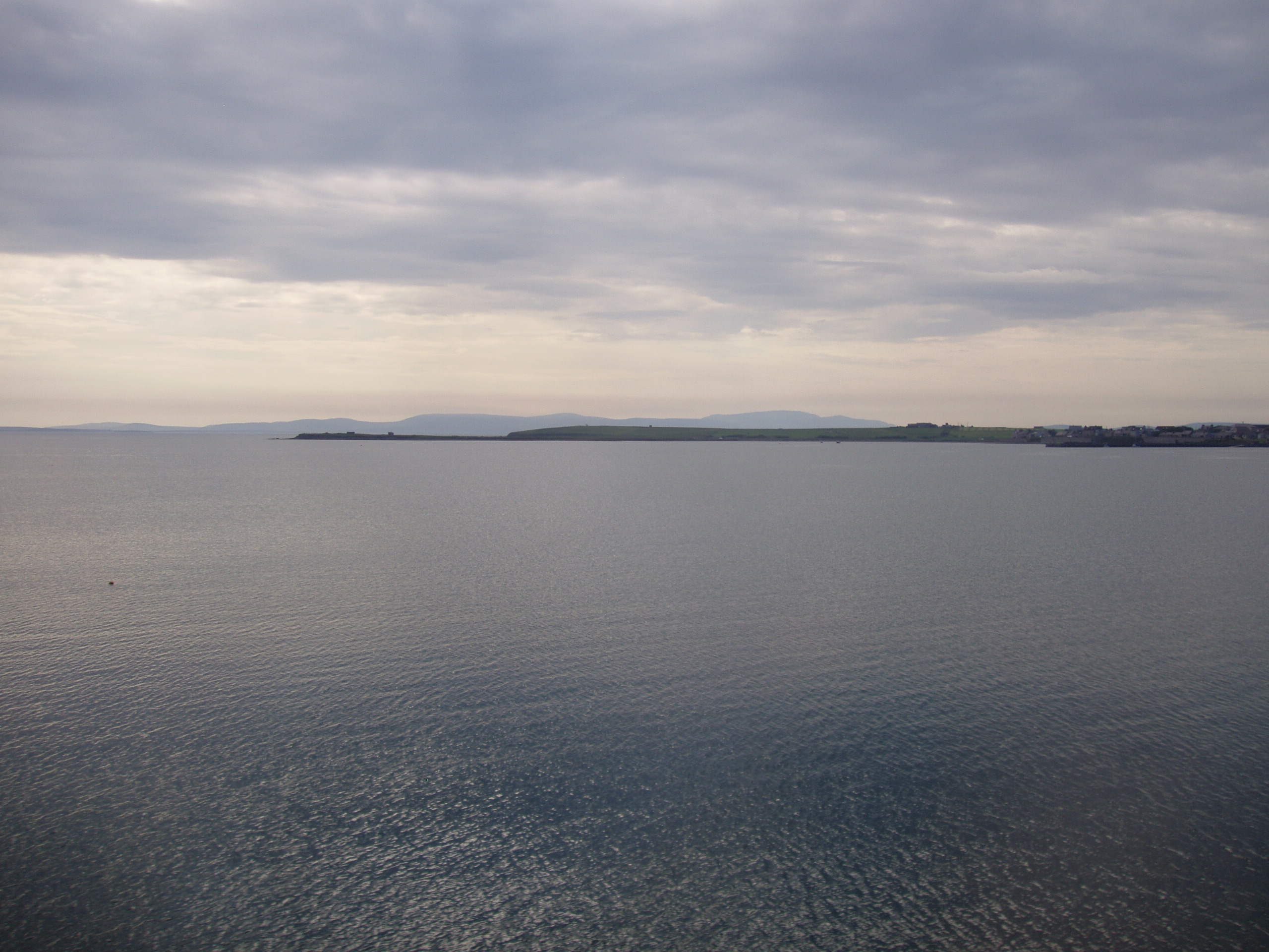 View of Scapa Flow from atop Churchill Barrier #1 (along Highway A961). This viewpoint is located between Lamb Holm Island & Mainland Orkney Island.